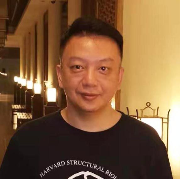 Casual photo of James J. Chou taken in Guilin, China, 2019